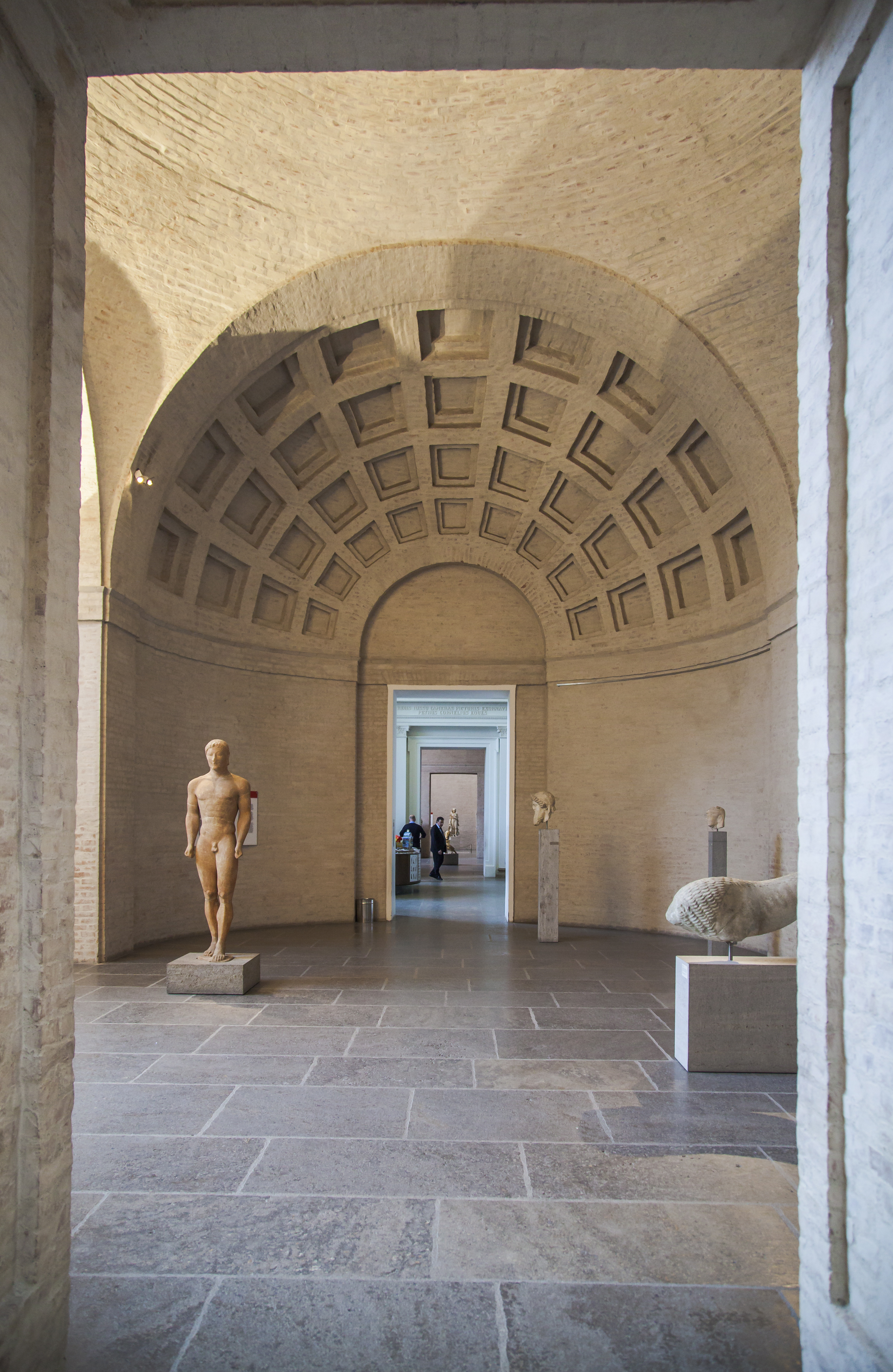 Glyptothek, Munich, Germany